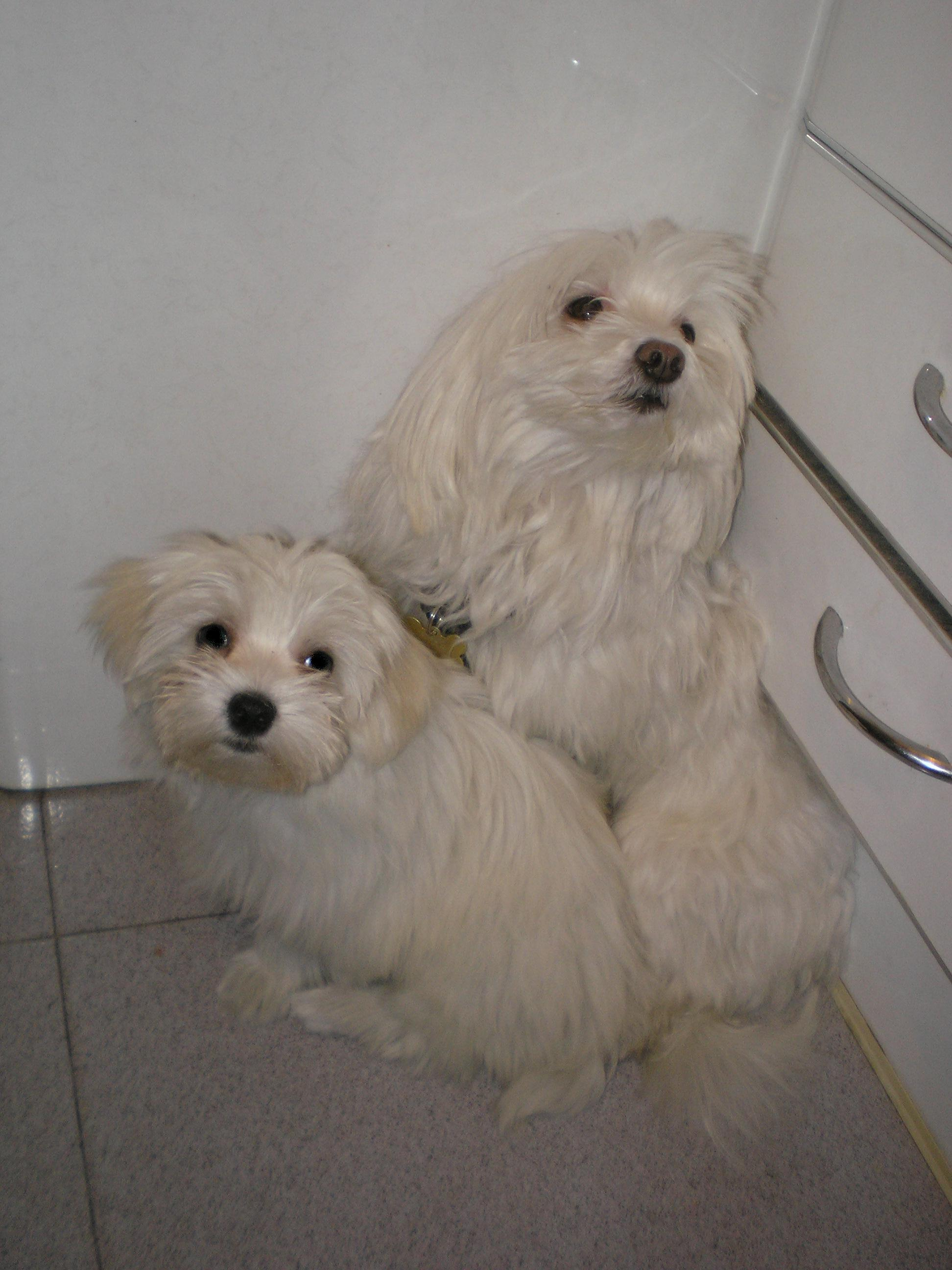 A photo of my dog